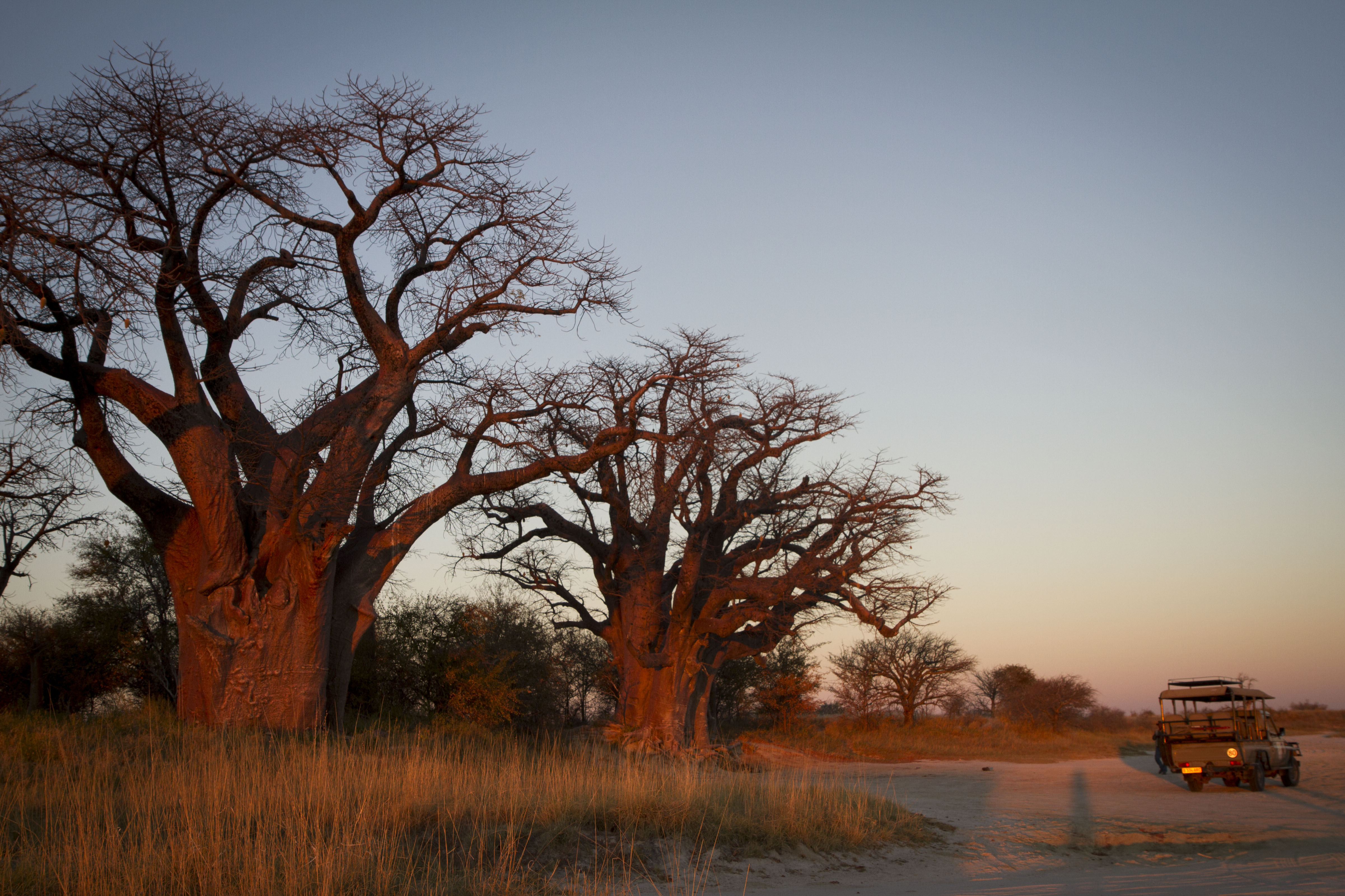 Baines' Baobabs